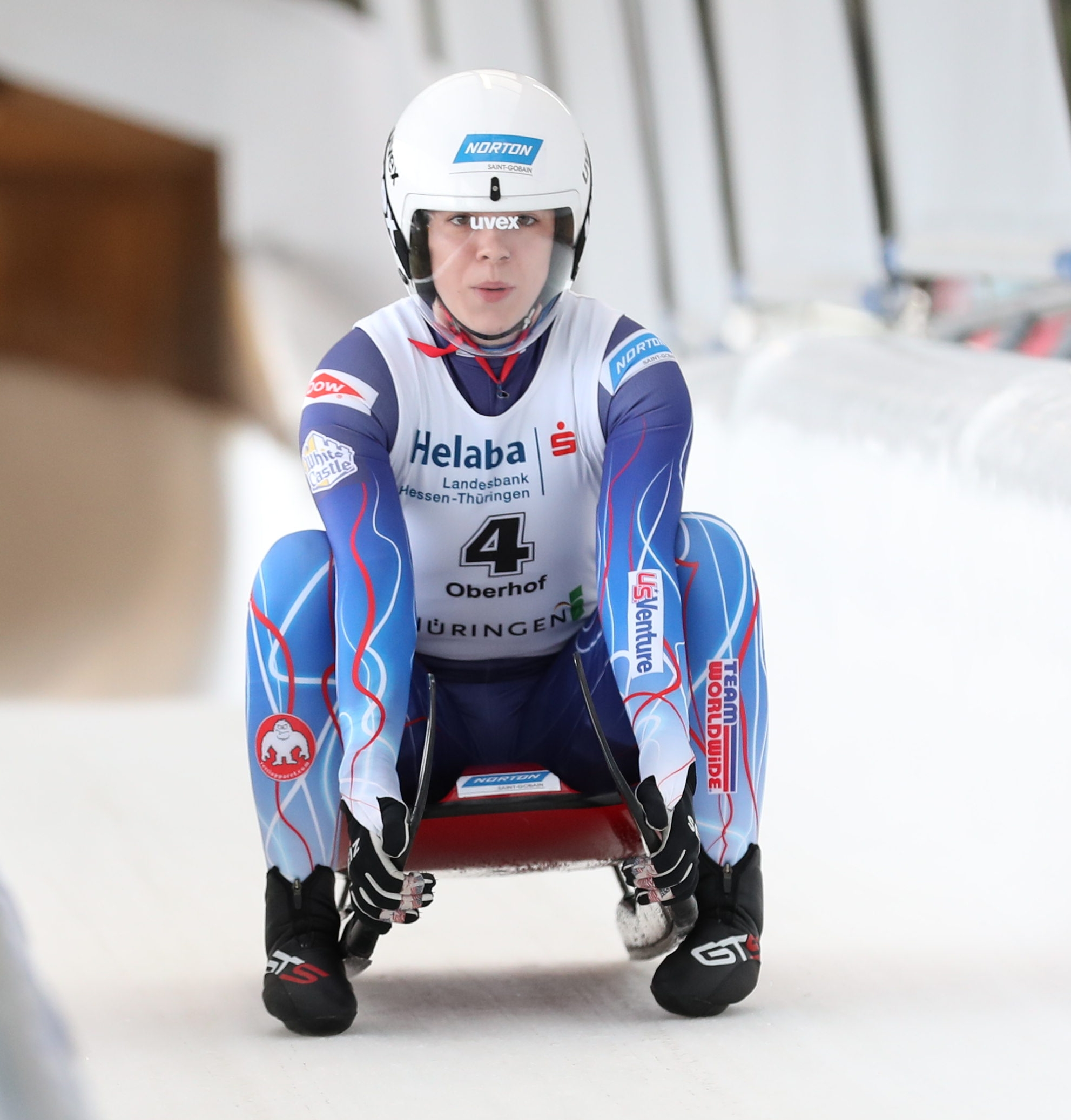 Women's Nations Cup at the 2019/20 Oberhof Luge World Cup